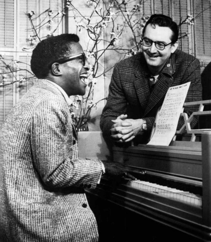 Photo of Sammy Davis, Jr. and Steve Allen rehearsing for the premiere of The Steve Allen Show in 1956. This prime-time television program premiered a couple of years after The Tonight Show; Steve Allen hosted both shows.